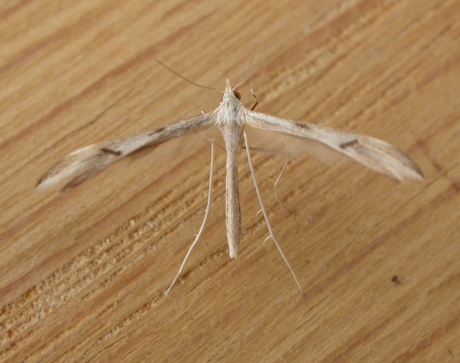 Platyptilia celidotus (Meyrick, 1885), to MV light, Aranda, ACT, 31 October/1 November 2008